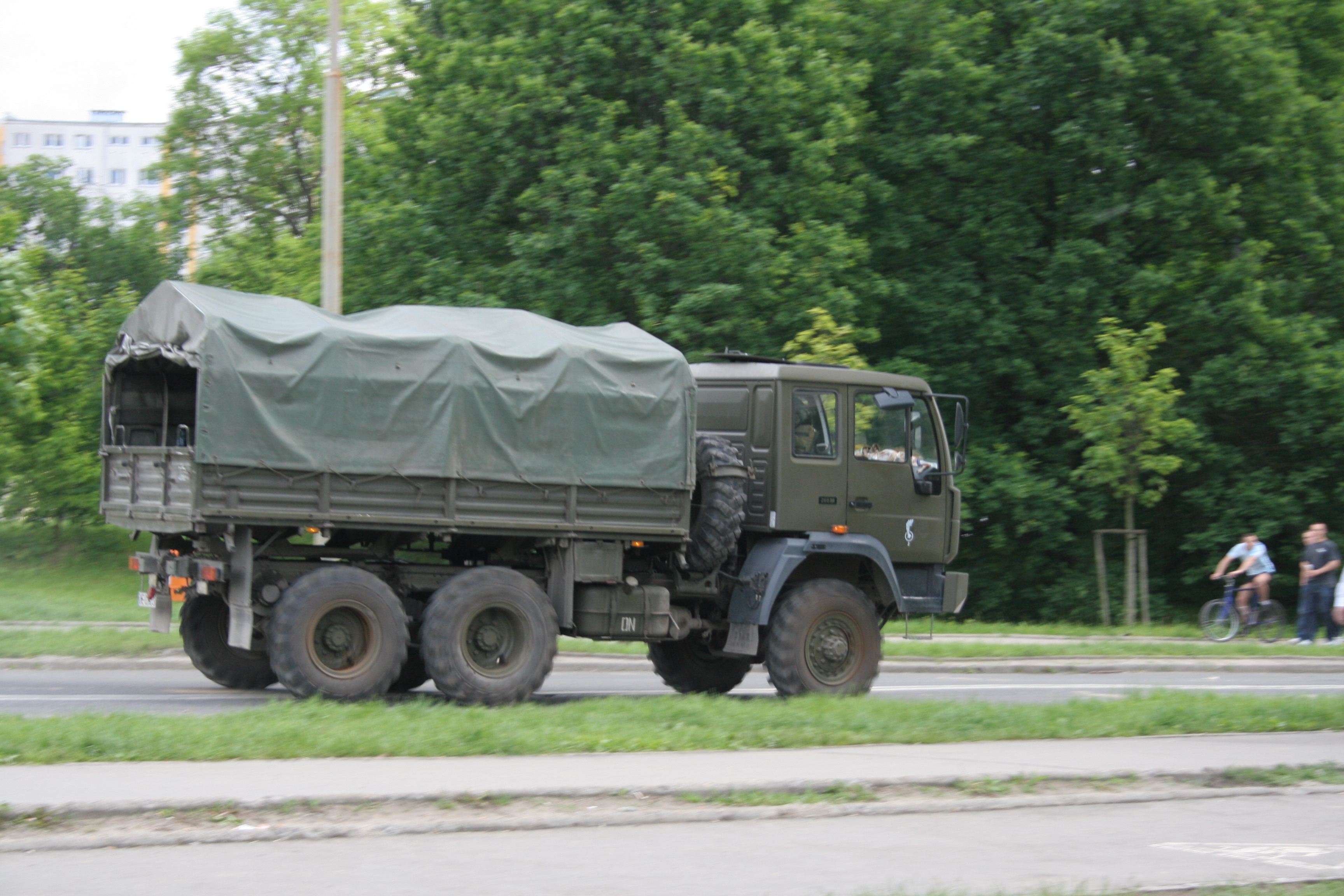 Polish military truck Star 266M during Flood in Wroclaw, Poland.